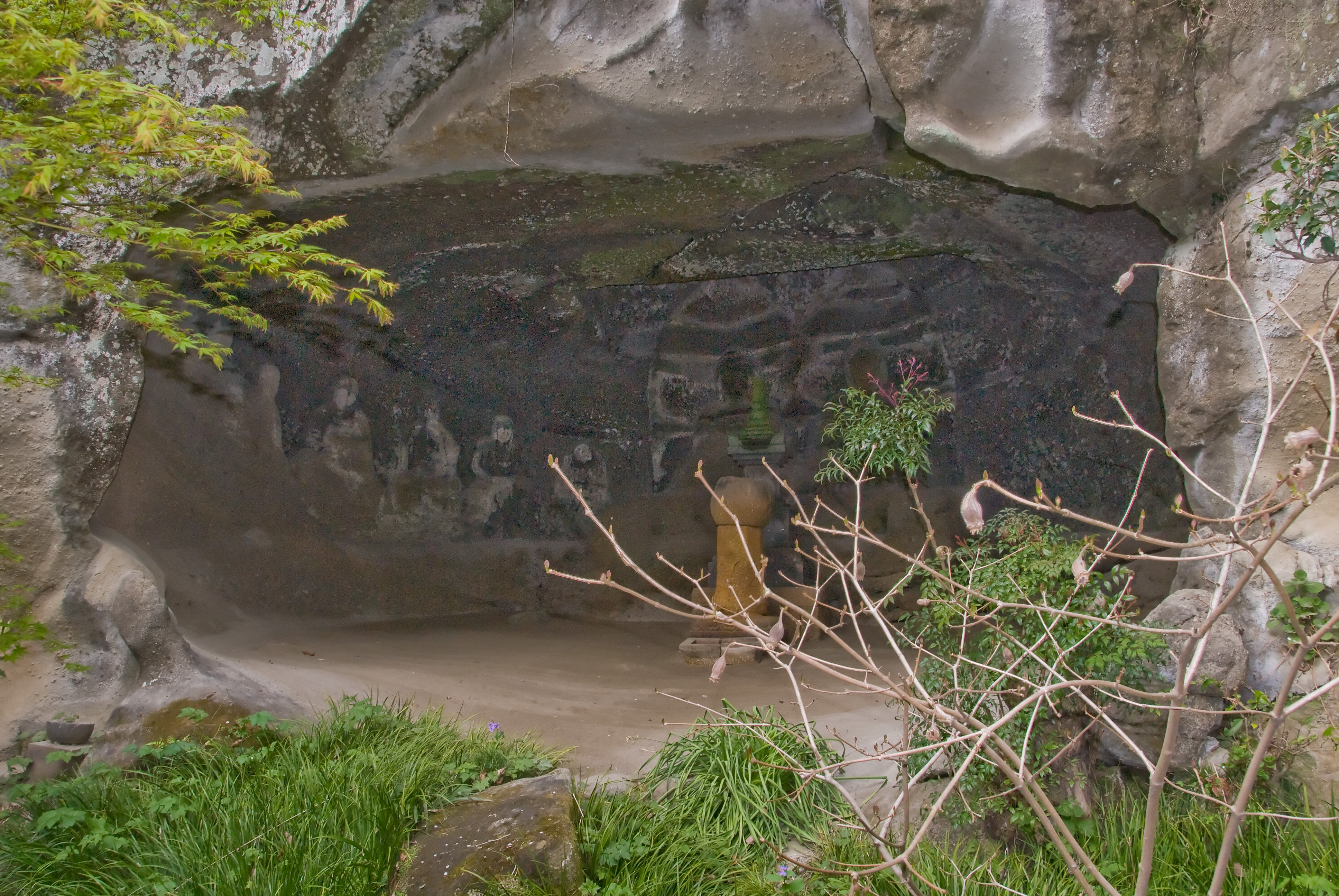 The Yagura at Meigetsu-in is the largest in Kamakura. Visible are a hokyointo and what remains of the reliefs of the 16 arhats